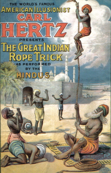 Poster for the American magician Carl Hertz Indian rope trick.